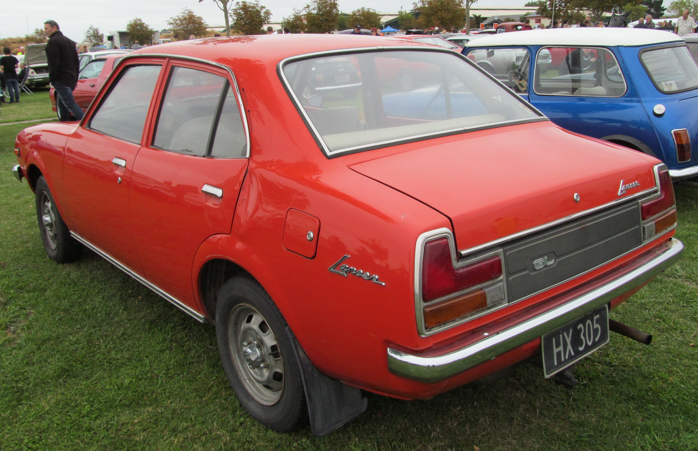 Mitsubishi were clearly hinting at one of the Lancer's close competitors with taillights like that, weren't they?! Strangely I can't find many other photos of Lancers with these lights.